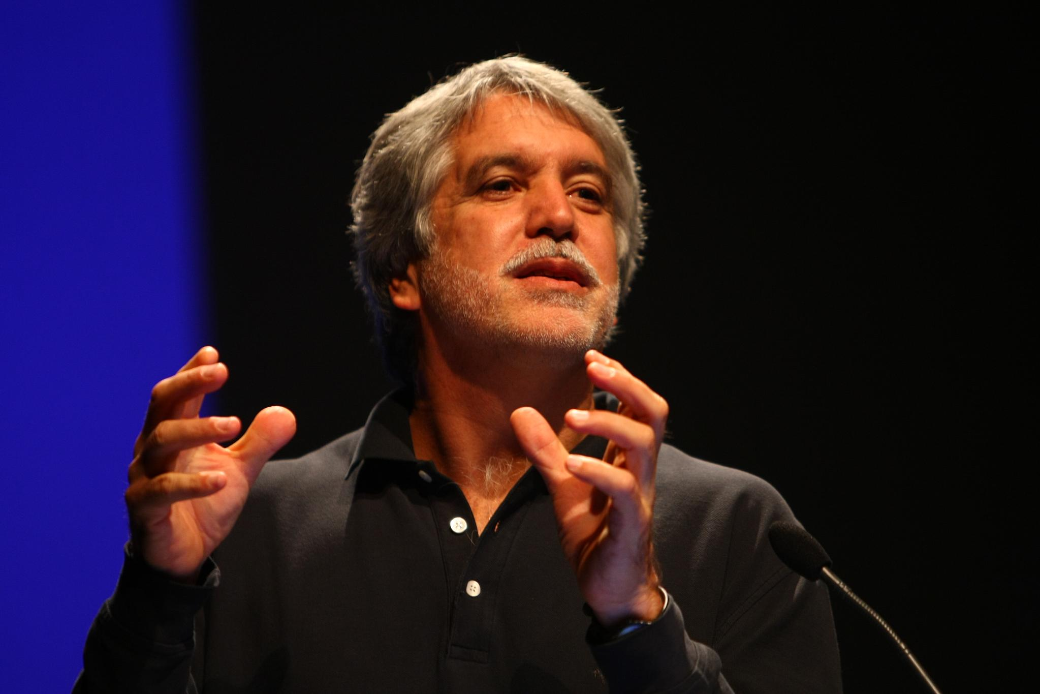 Enrique Peñalosa